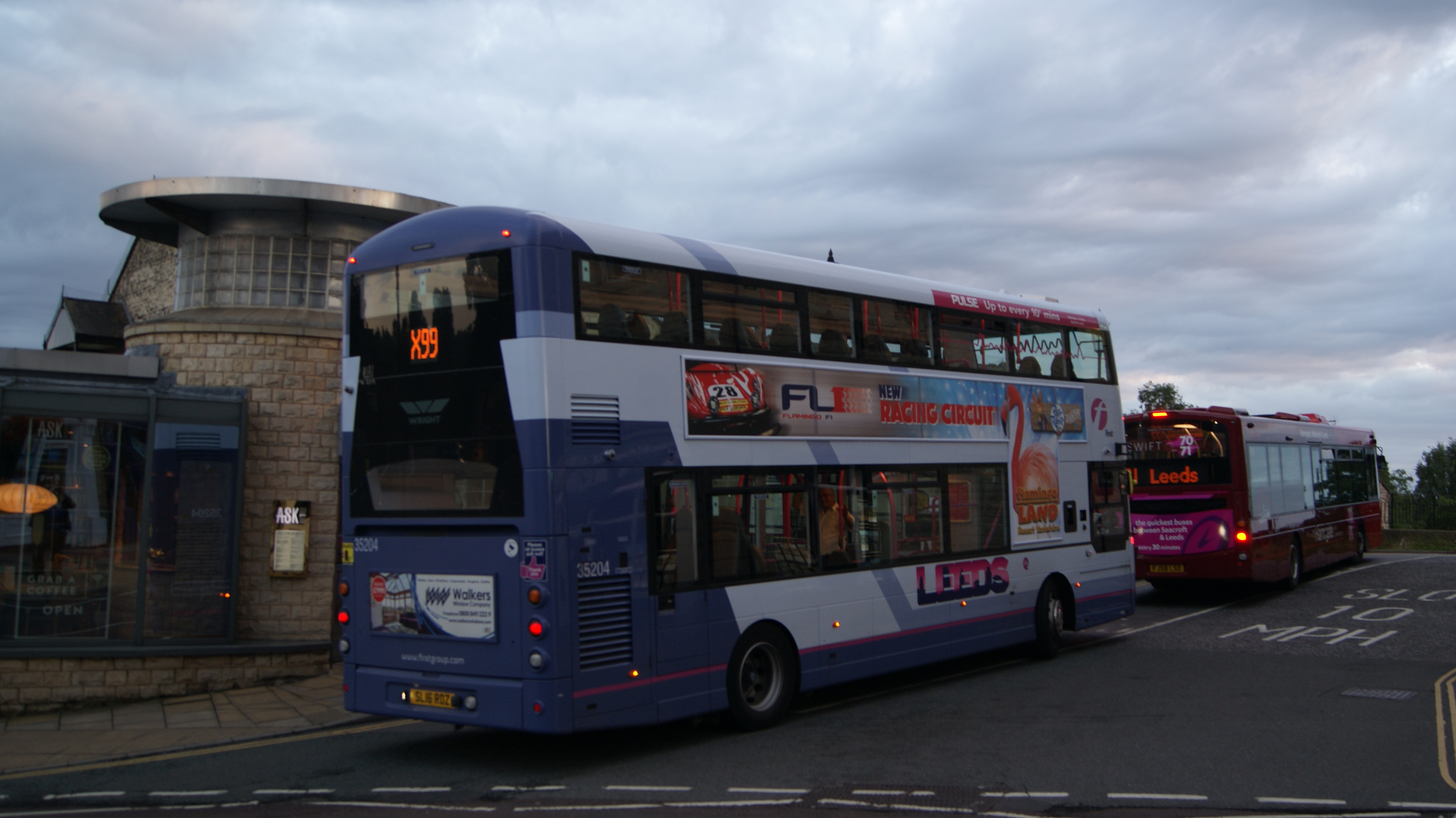 First Leeds and Transdev in Harrogate on stand A at Wetherby bus station in Wetherby, West Yorkshire. Taken on the evening of Wednesday the 26th of July 2017.